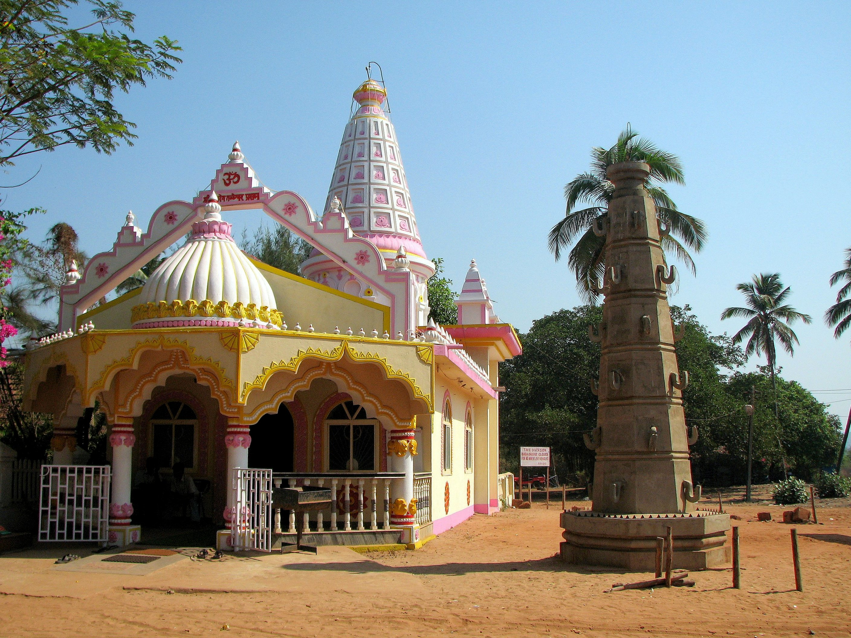 Avery colourful small building of religious use on Bagga Road, Arpora Goa. The building is repainted in different colour sceme annually.